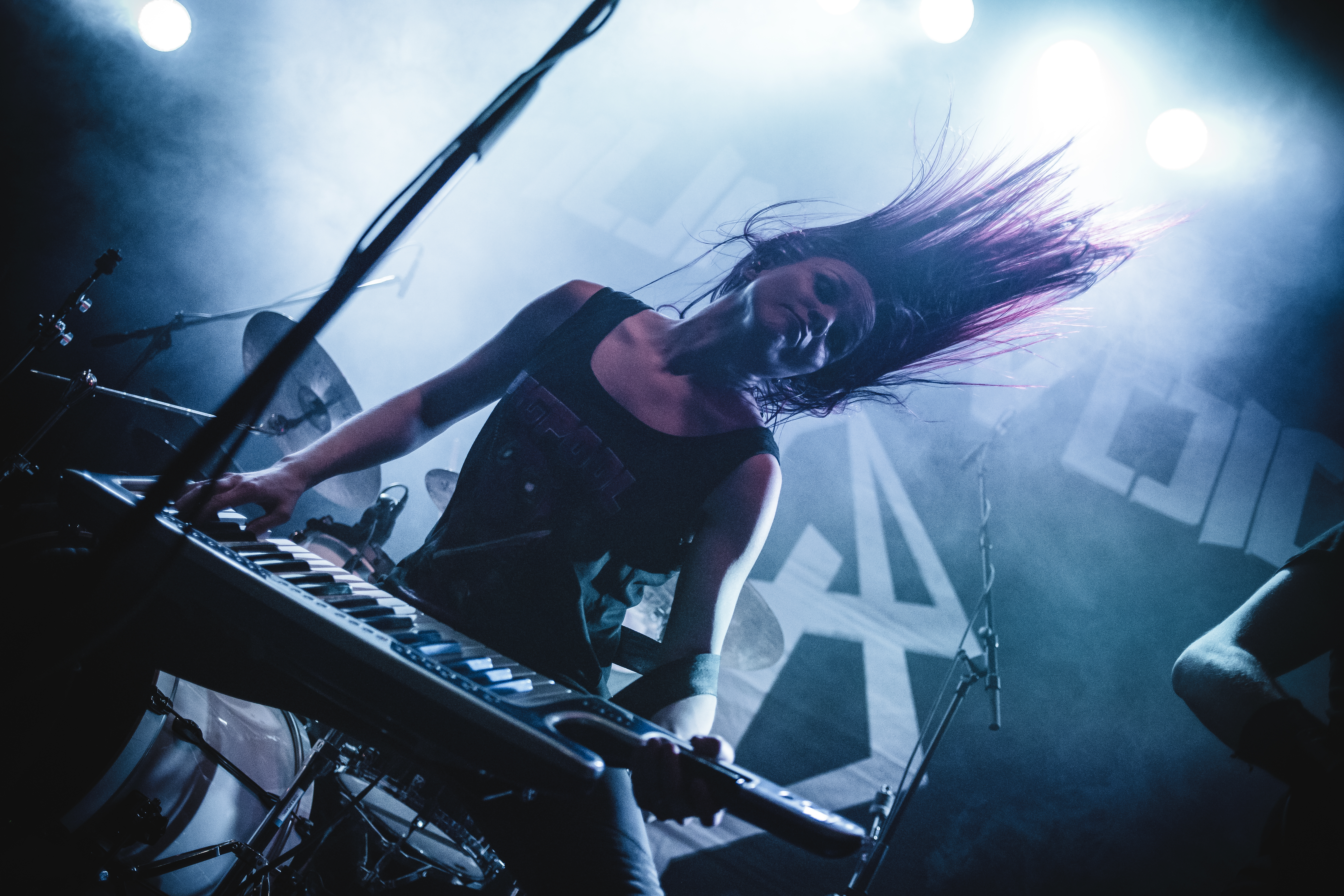 picture of a musician